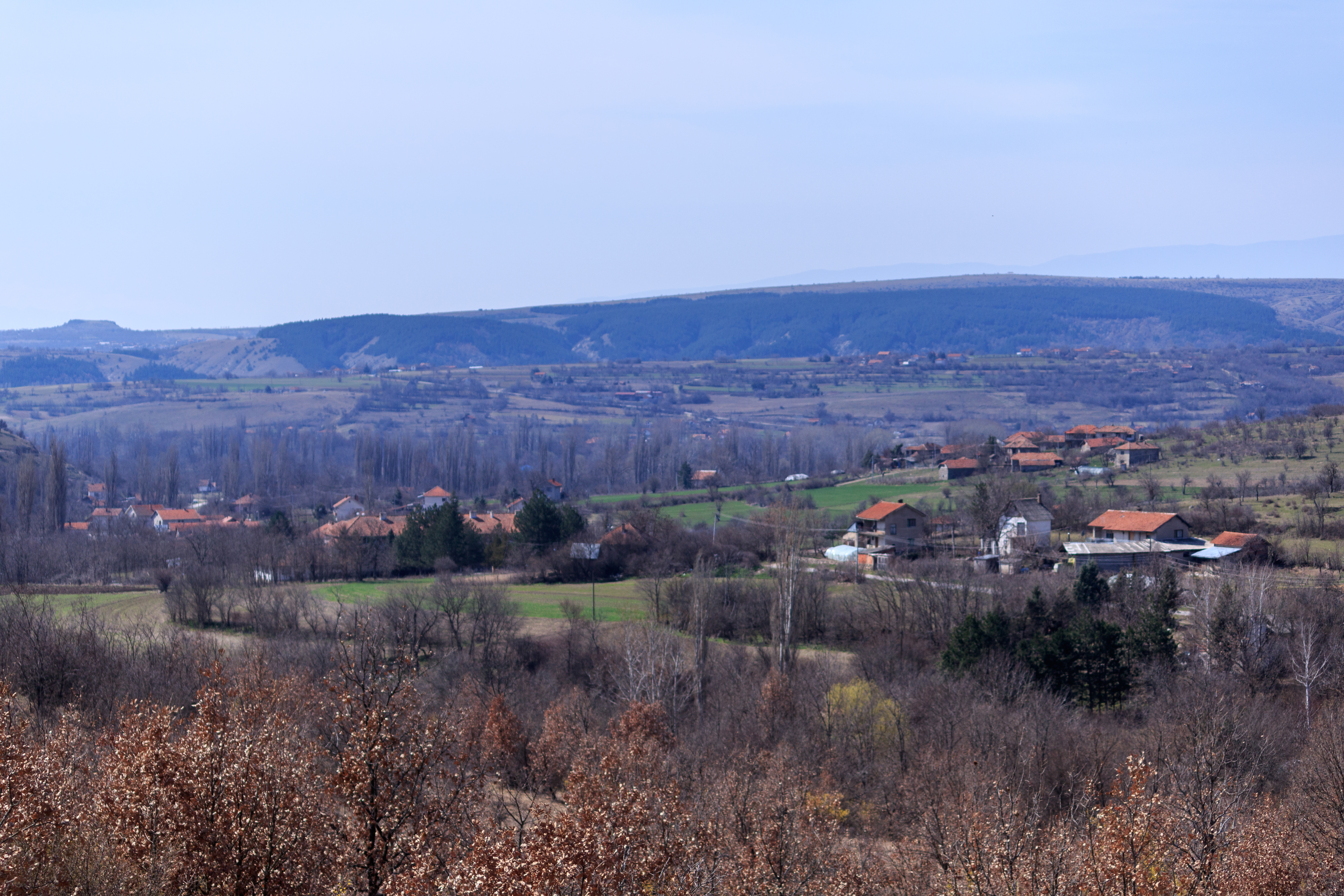 View of the village Dragomance